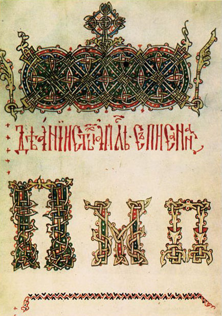 Drajkov’s Apostle from 1428. 256 ff., paper, Cyrillic semiuncial, with mixed jus and reformed without jus orthographic system (with ingredient of juses). It was written by literary Drakjo, who came in Lesnovo monastery from the town Bdin. According to the text structure the manuscript is apostle-aprakos. In 1519 Lesnovian abbot Dionisij sold it to Novo Selo, Štip